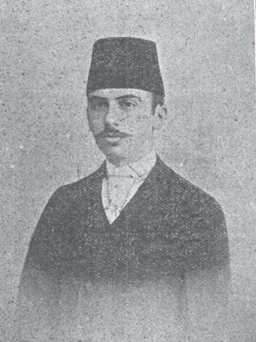 This picture was taken from a special edition of a magazine called "Resimli Gazete" (Picture Newspaper) published in Istanbul in 1899. The special edition is titled "Girit ahali-yi Islamiyesi muhtacının menfaatine mahsus nüsha-yi fevkaladesi" (Special Edition for the benefit of the needy Muslim population of Crete). Its copyrights have expired under both the Turkish and U.S. laws.